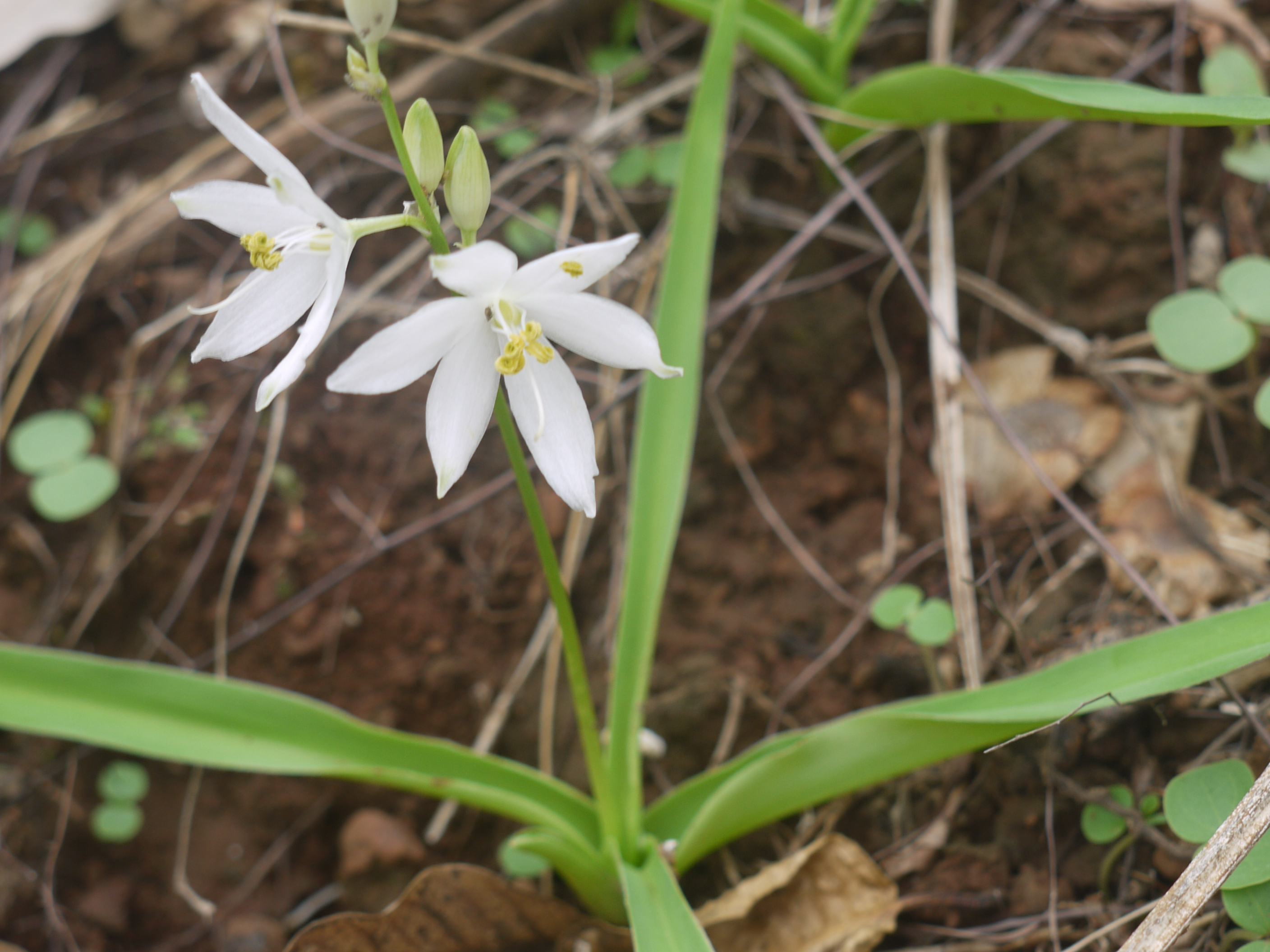 Liliaceae (lily family) » Chlorophytum tuberosum kloh-roh-FY-tum -- from the Greek chloros (green), and phyton (plant) too-ber-OH-sum OR tew-ber-OH-sum -- tuberous commonly known as: edible chlorophytum • Gujarati: સફેદ મૂસળી safed musali • Hindi: सफ़ेद मुसली safed musli • Marathi: कुळई kulai, सफेत मुसळी safet musli Native to: India References: Flowers of India • ENVIS - FRLHT • Flowers of Sahyadri by Shrikant Ingalhalikar